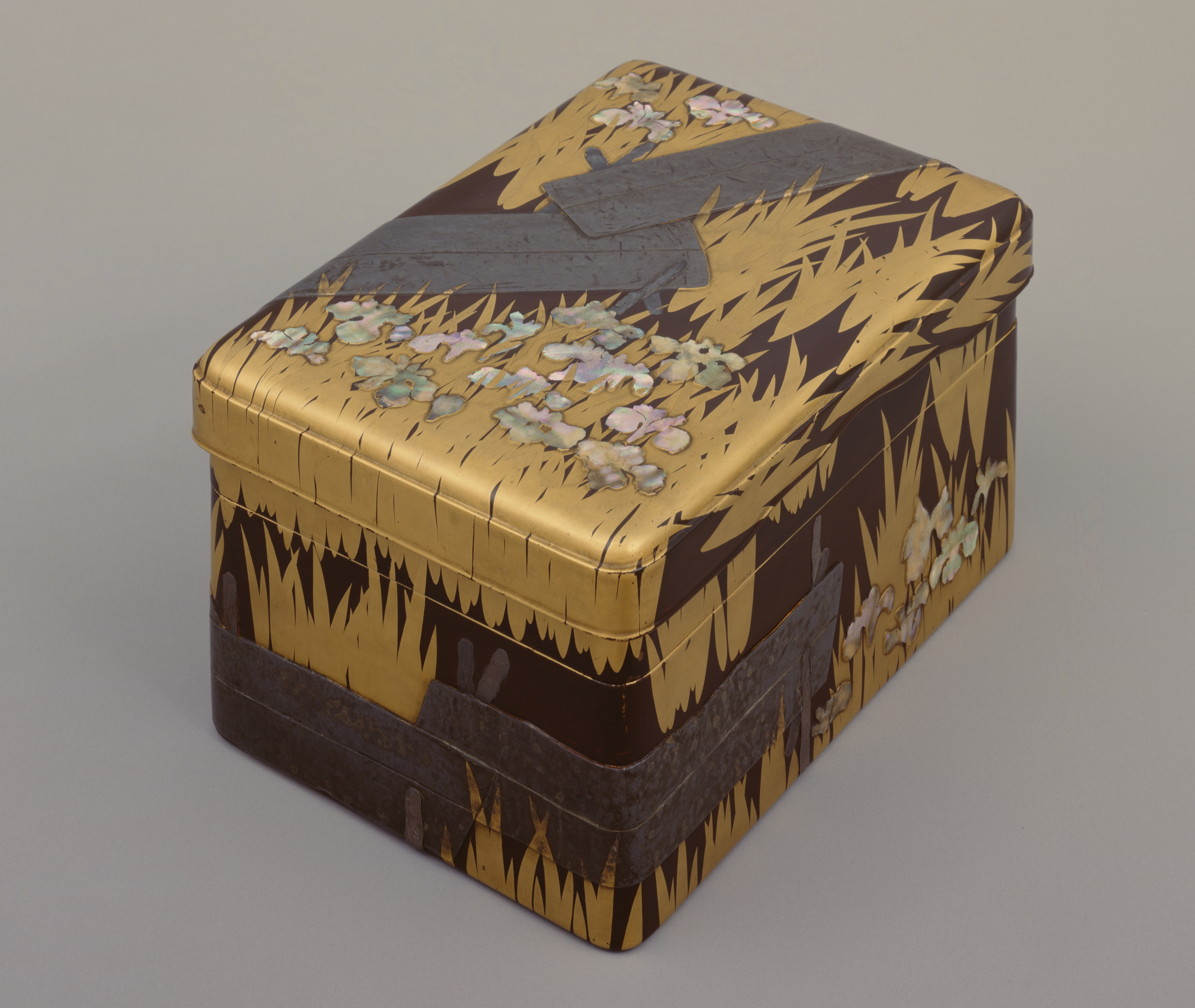 Writing Box Yatsuhashi bridge design in maki-e lacquer and mother-of-pearl inlay, by Ogata Kōrin